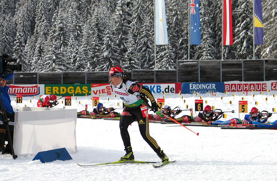 German biathlete Magdalena Neuner at the World Cup in Razen-Antholz, Italy, January 2009 Cropped from File:Neuner-Antholz09-3.jpg